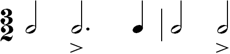 Sarabande (historical dance), rythmical pattern by: Ziga 21:42, 28 February 2007 (UTC)